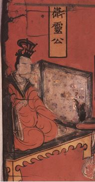 Duke Ling of Wey, from a lacquer painting over wood.